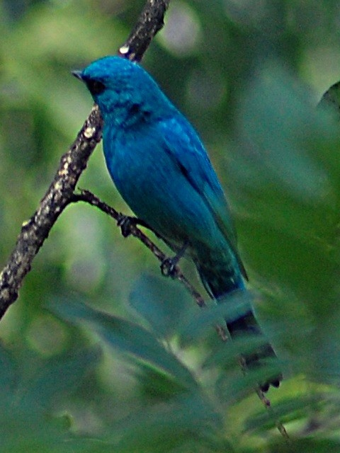 Verditer Flycatcher at IISc Bangalore.